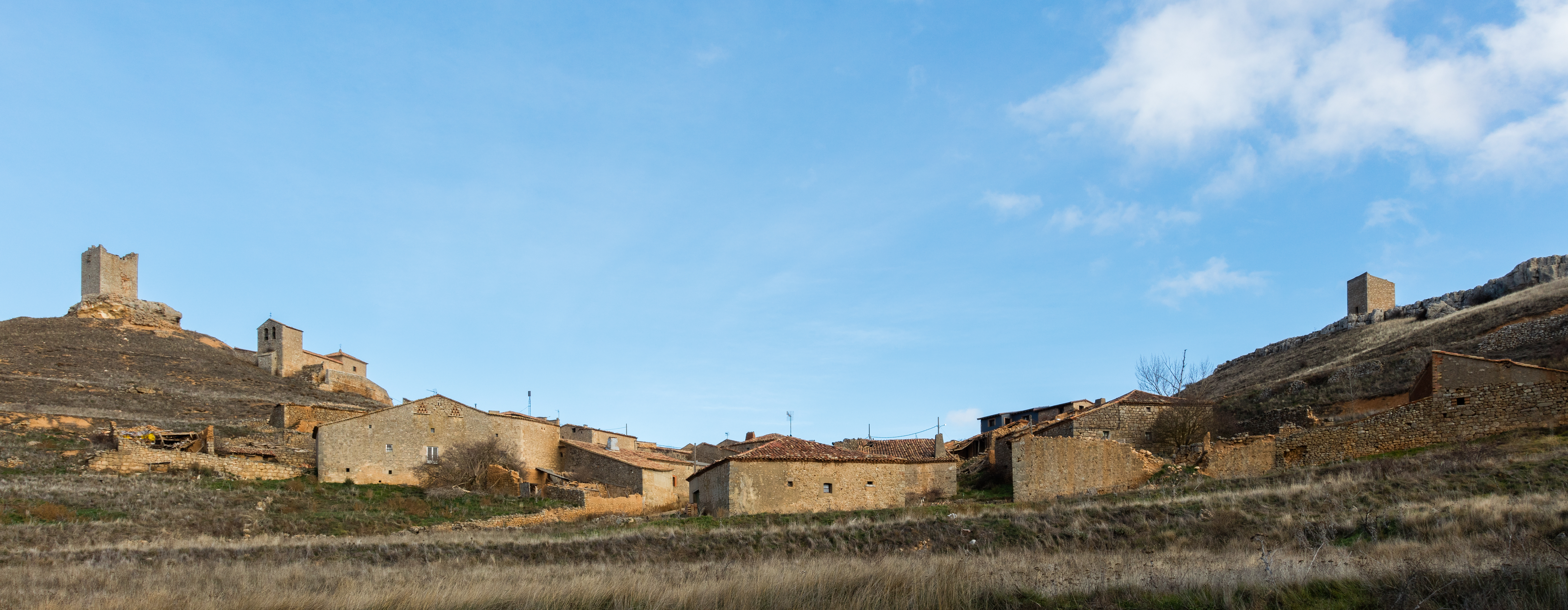 Moñúx, Soria, Spain